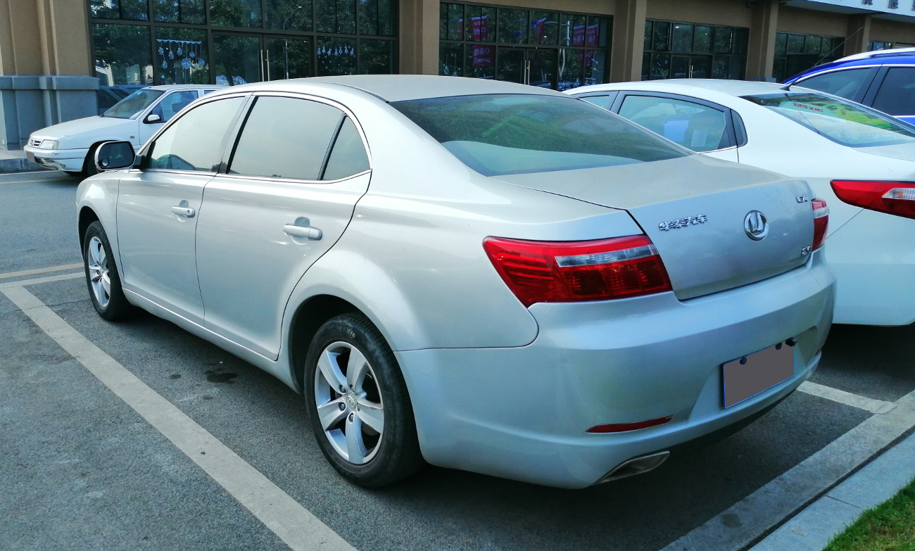 Hawtai E70 photographed in Chongqing, China.